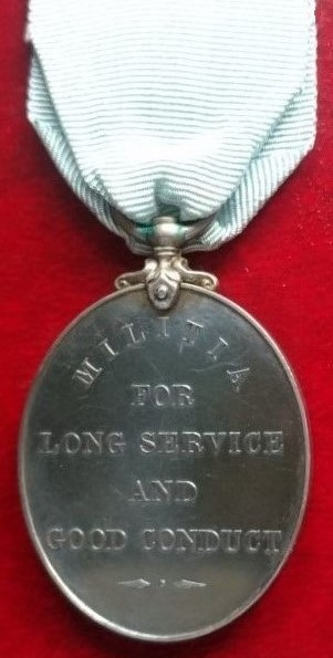 British long service medal awarded to the part-time Militia from 1904 to 1930